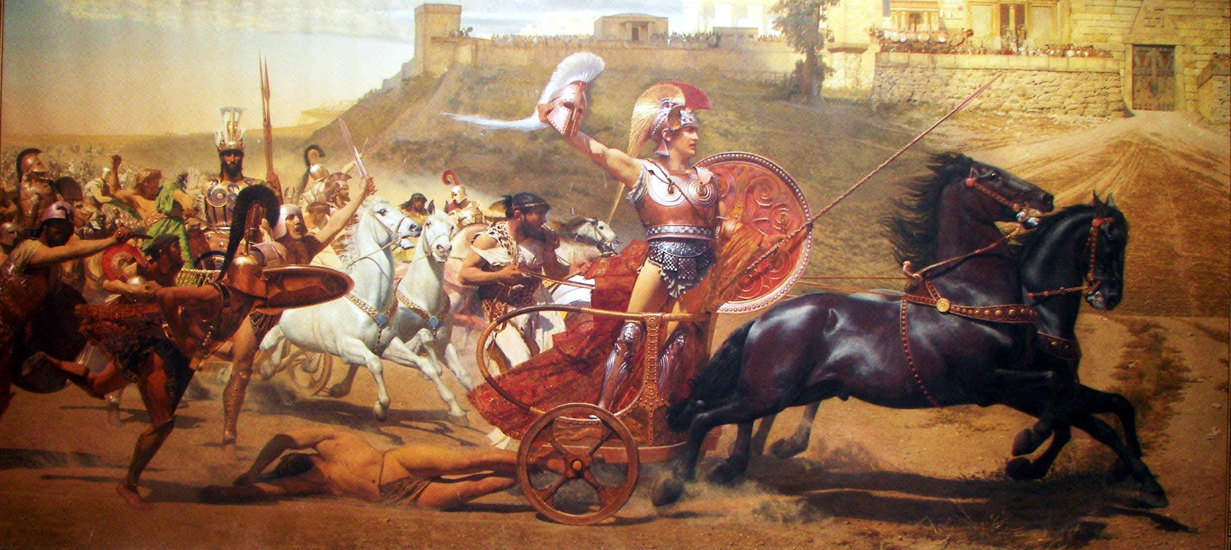 details